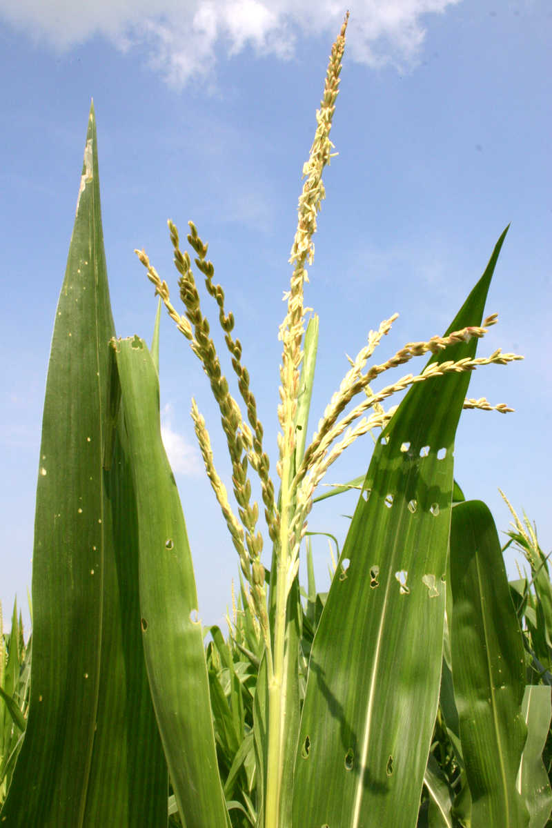 Corn male flower AKA corn tassel. The stamens of the flower produce a light, fluffy pollen which is borne on the wind to the female flowers (silks) of other corn plants.